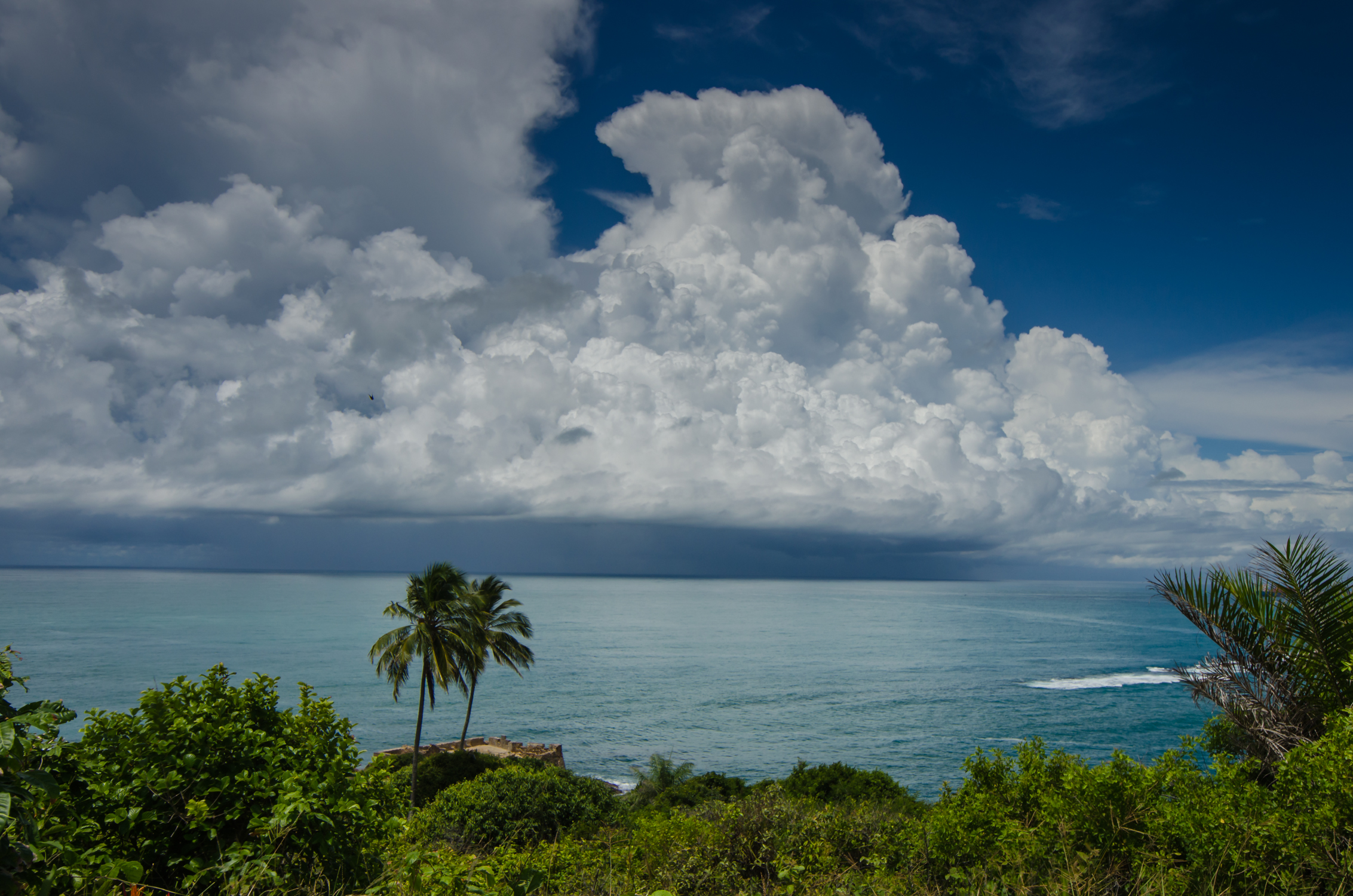 Cape of Santo Agostinho, Pernambuco - Brazil